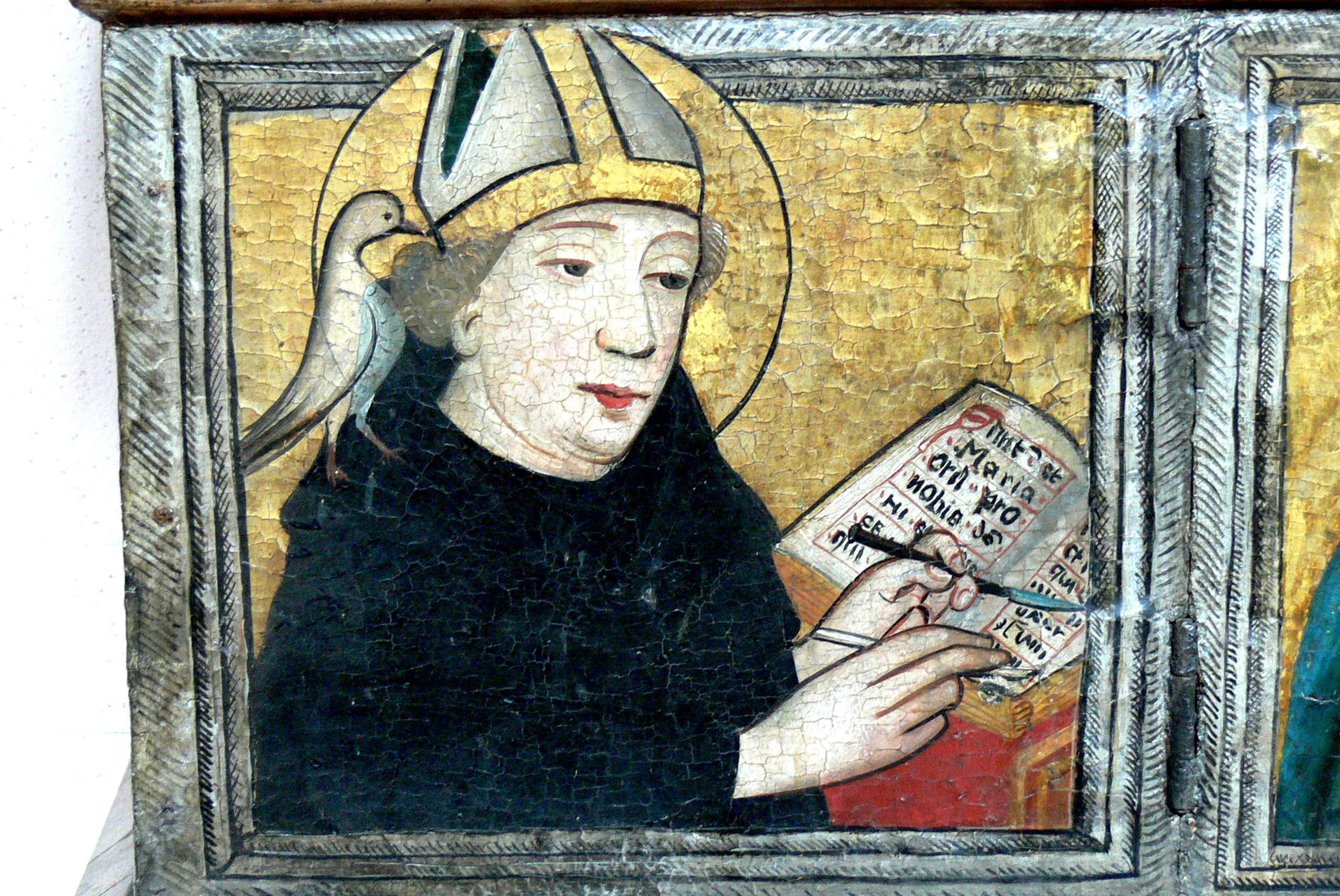 Langenzenn ( Bavaria ). City church - Altar of Mary ( Predella ): Saint Augustine ( 1440/50 ).